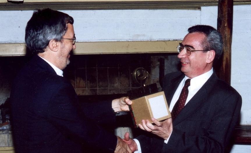 Gustavo Sánchez Sarmiento receives the Amca Award 2002